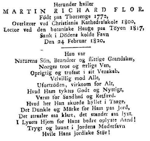 Epitaph of M. R. Flor